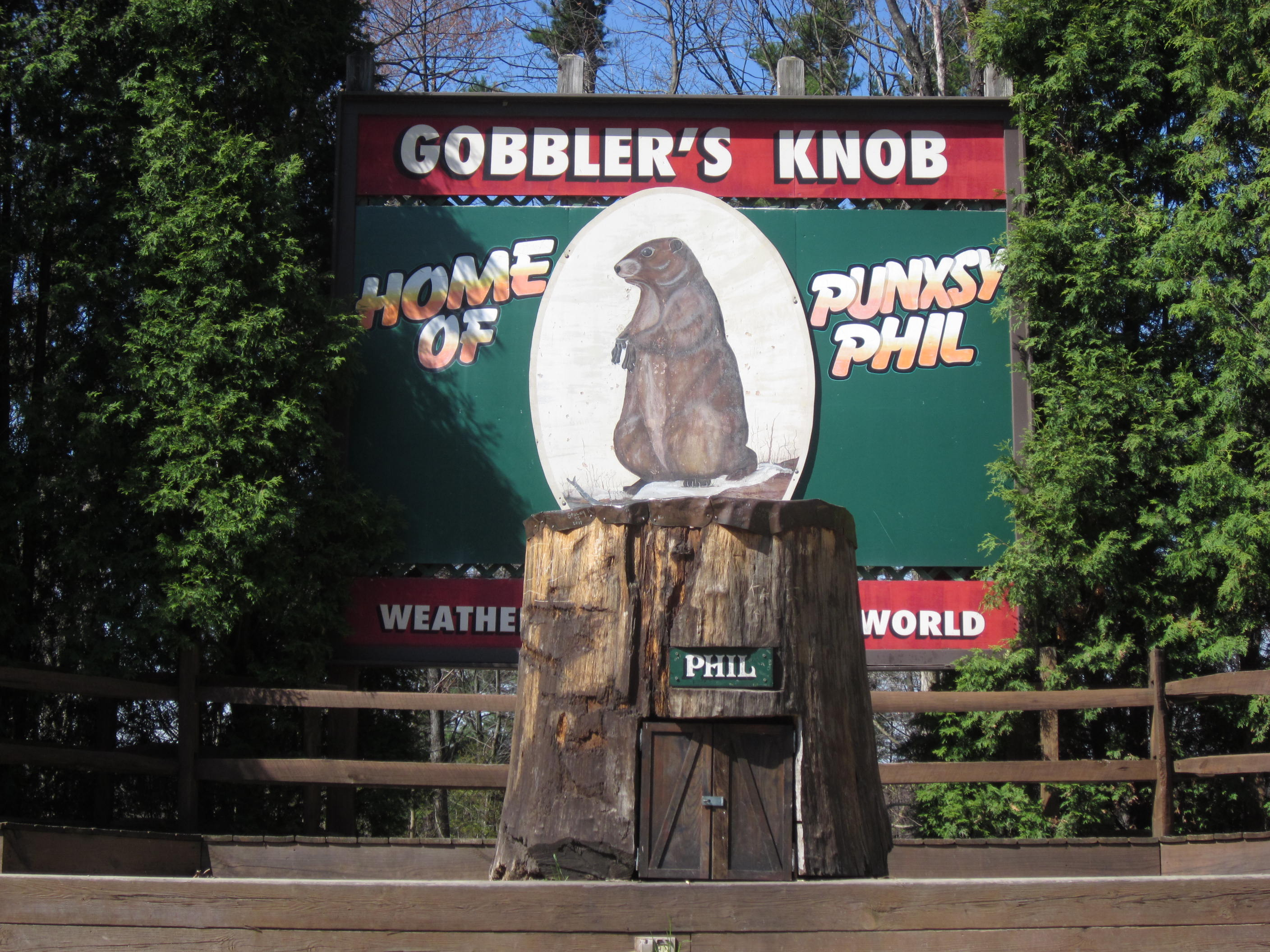 Gobblers Knob - Punxsutawney, Pennsylvania